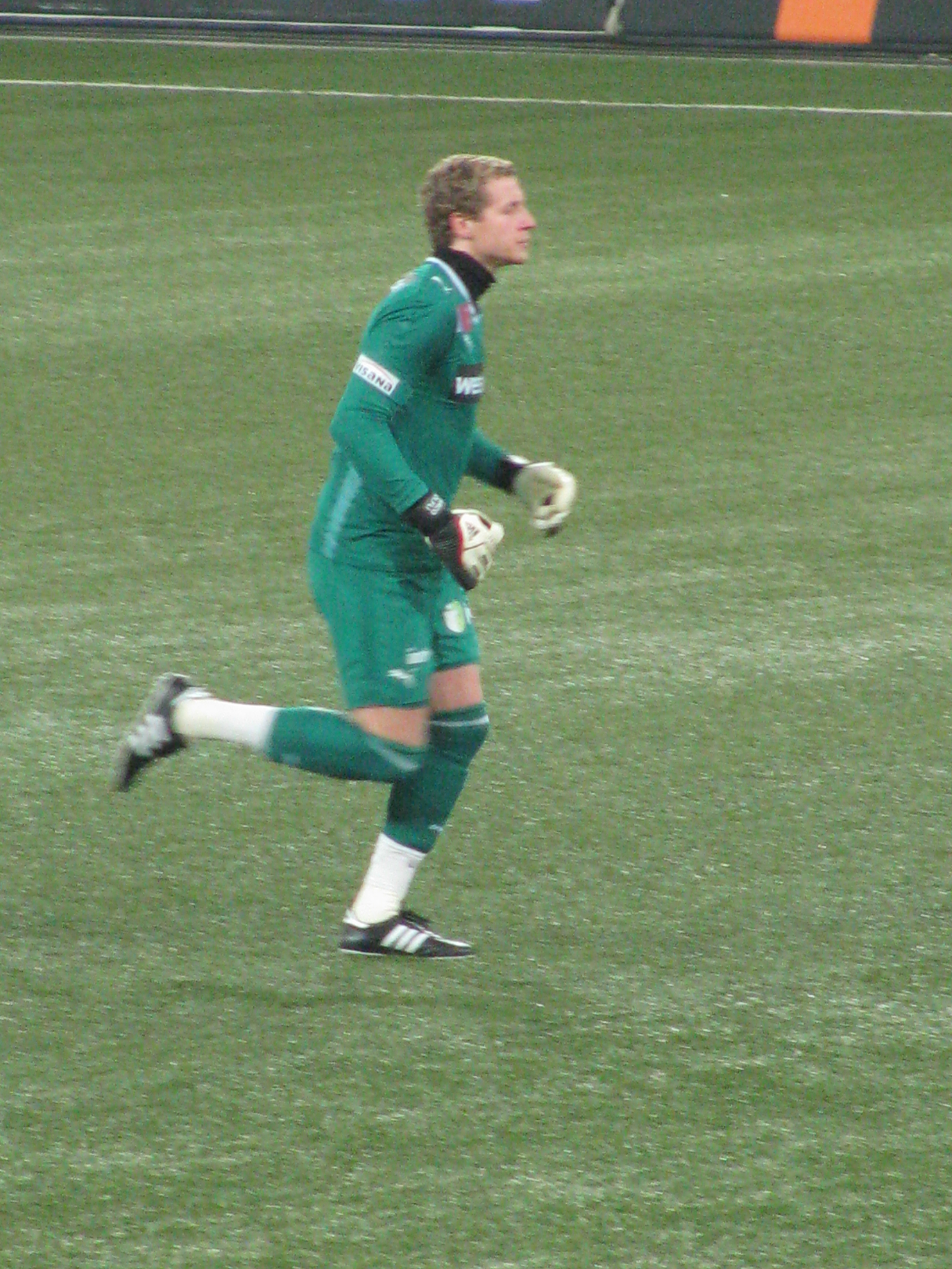 Swiss football (soccer) goal keeper Marco Wölfli